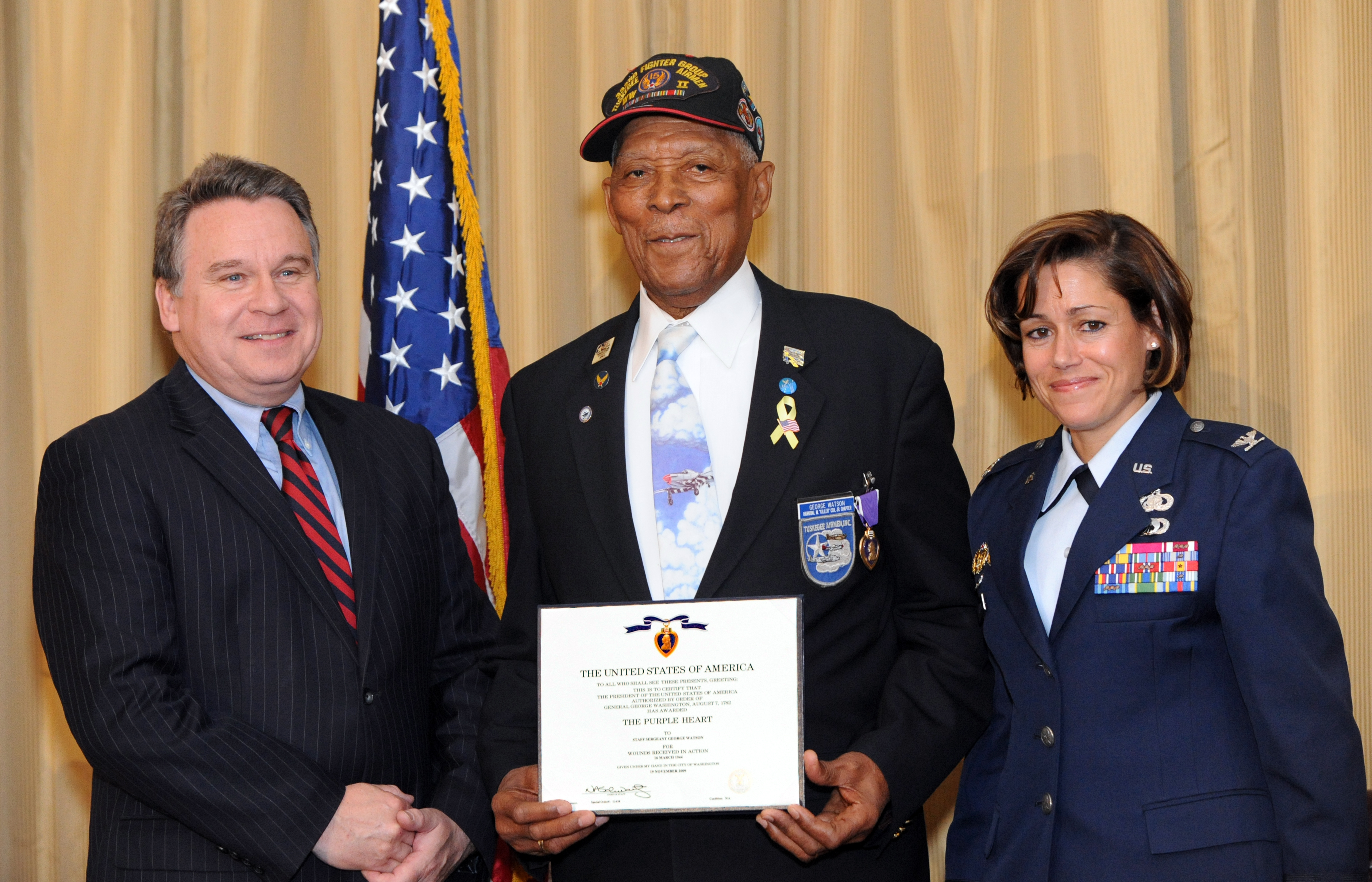 Tuskegee Airman Tech. Sgt. (Ret.) George Watson Sr. is presented the Purple Heart medal by Congressman Christopher Smith and Col. Gina M. Grosso, Joint Base McGuire-Dix-Lakehurst commander, May 10 here. He received the medal for injuries he sustained more than 66 years ago after a German air raid on his encampment near Naples, Italy. (U.S. Air Force photo/Wayne Russell)